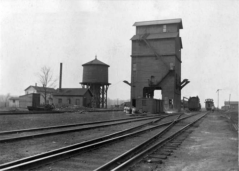 Train station in Wick, Ohio.